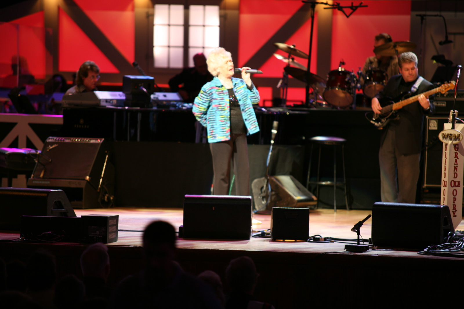 Jean Shepard